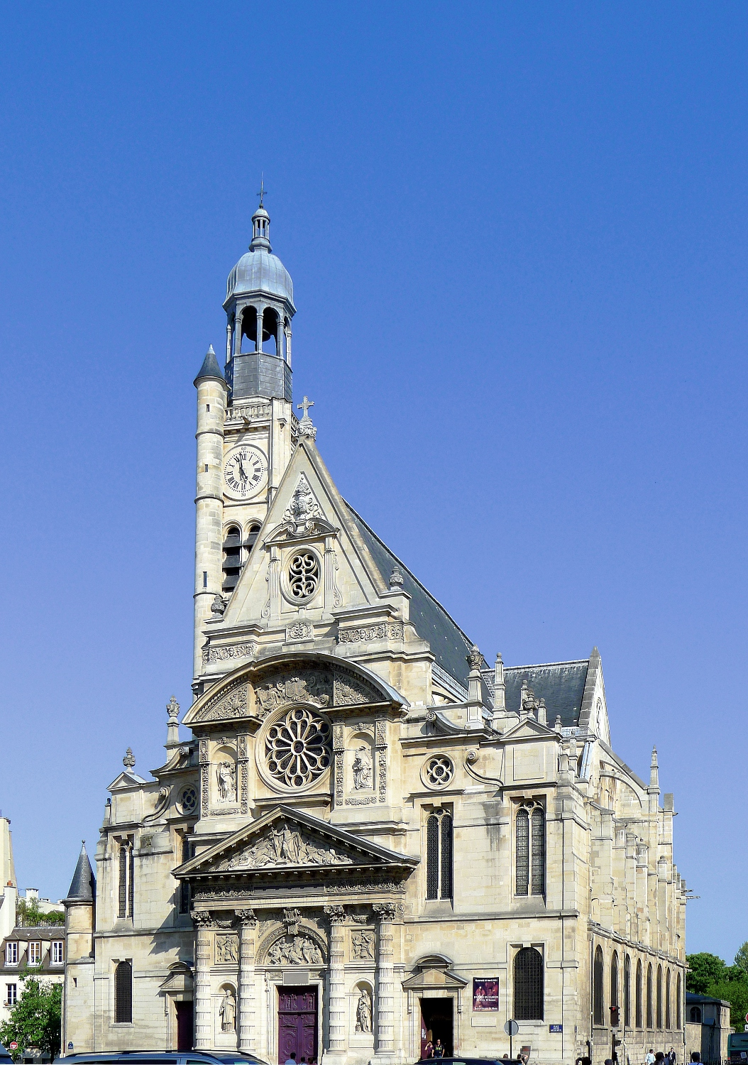 Saint-Etienne-du-Mont church - Paris